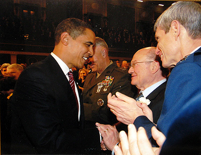 Congressman Gary Ackerman speaking with President Barack Obama on the floor of the House after the President's first address to a joint session of Congress.